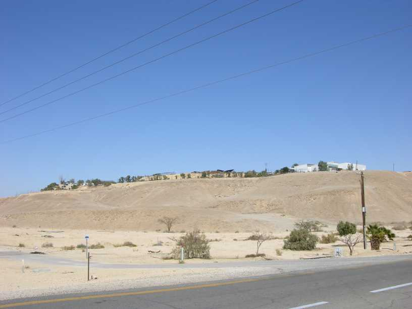 Kibbutz Grofit on the hill